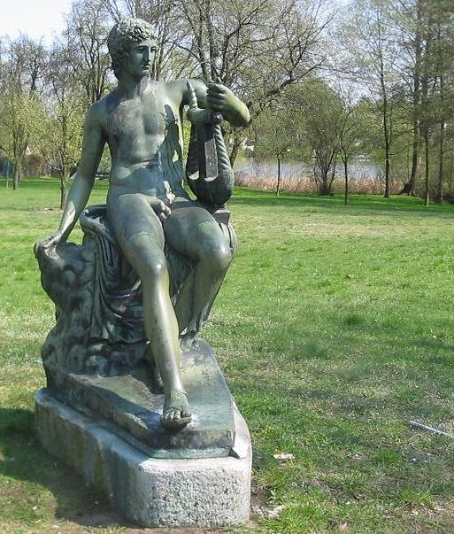 Bronze-sculpture Apollo in Berlin-Wilhelmstadt. The artist and the date of origin are unknown. The figure was formerly a part of the collection from Hermann Göring in Carinhall. Since 1964 its placed at Grimnitzsee. The Grimnitzsee is a lake besides and connected with the river Havel. Its surface area is 7,22 ha. The lake is listed as Protected area (german: Landschaftsschutzgebiet).